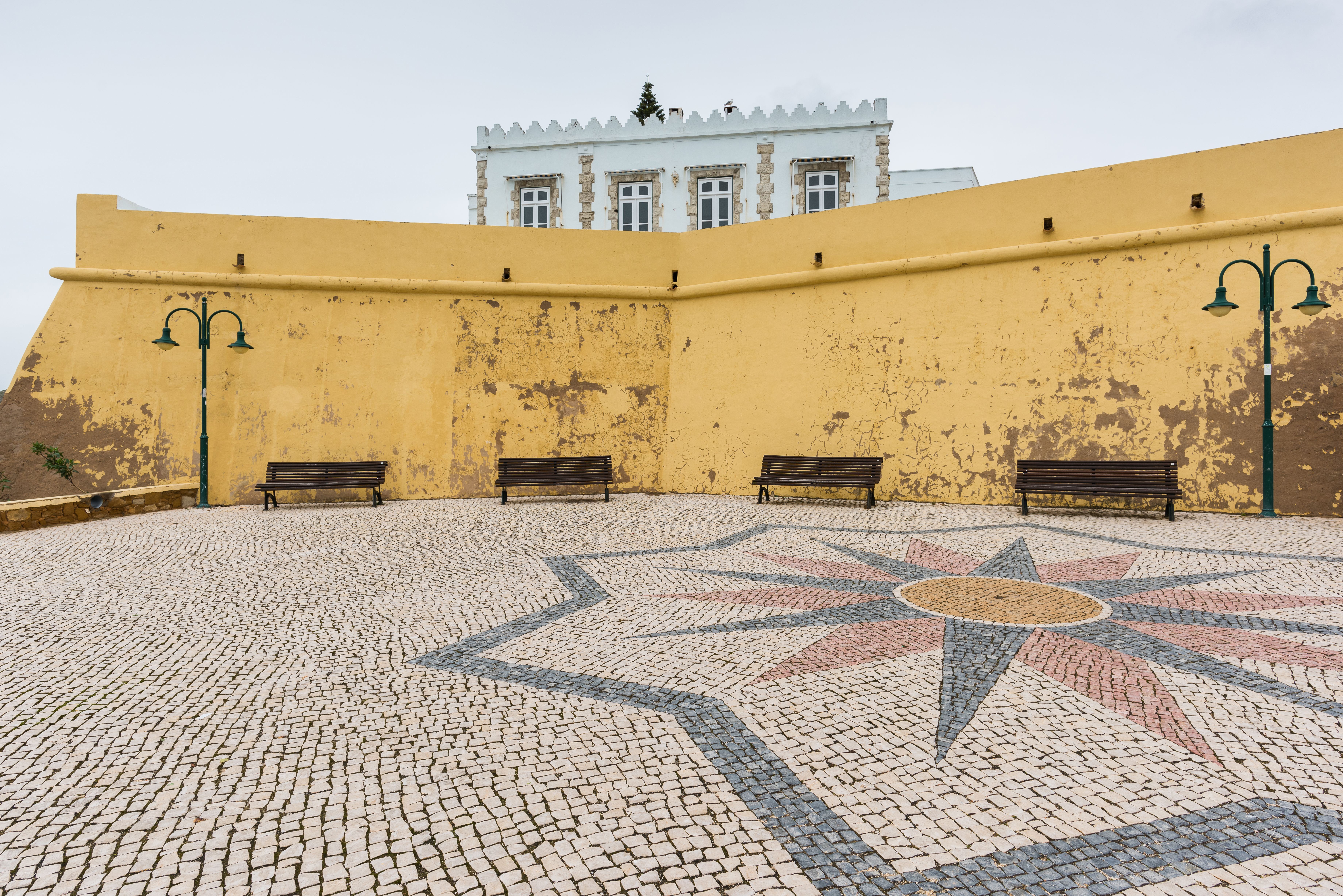 Praia da Luz Portugal February 2915